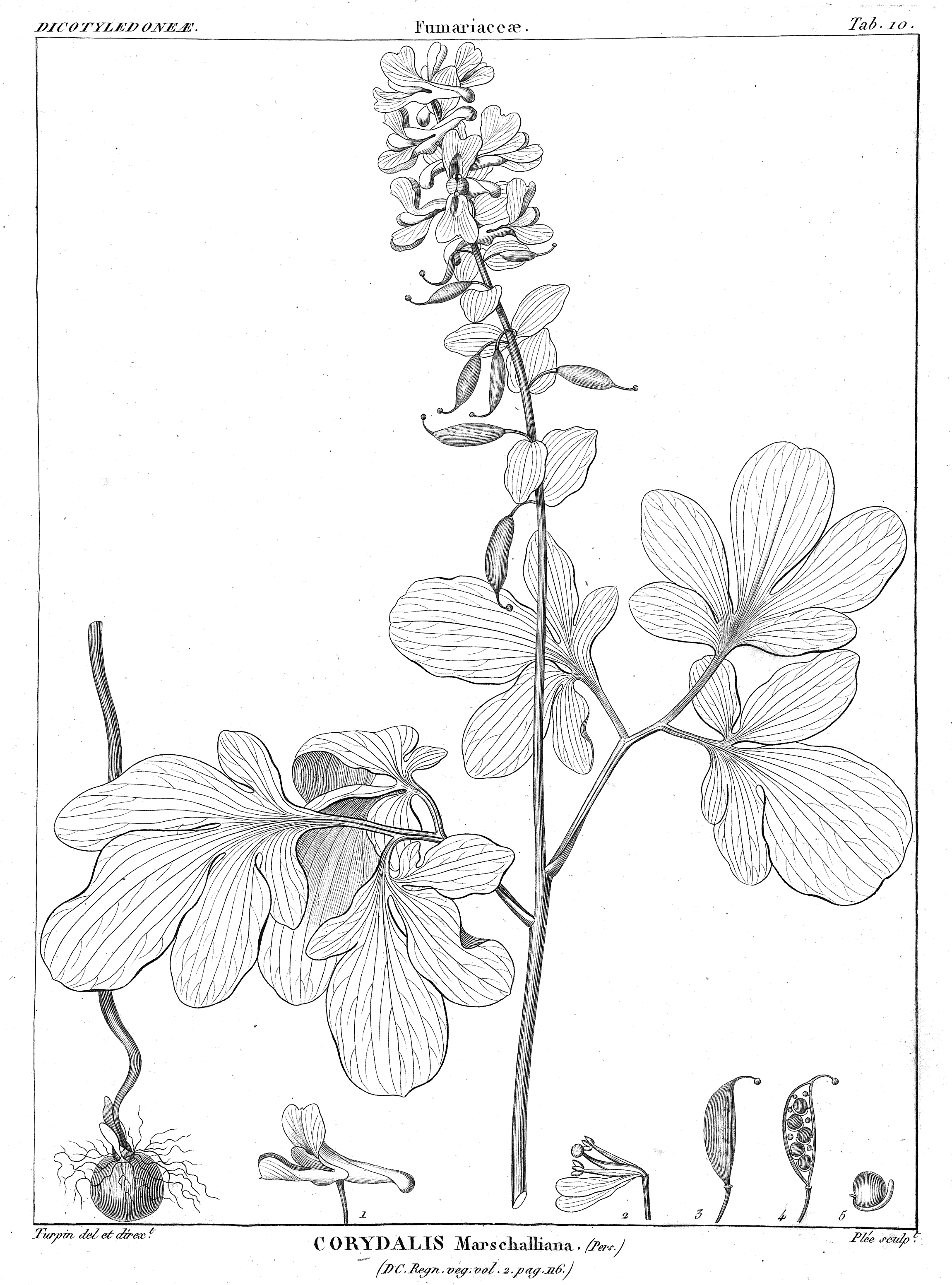 Illustraion of Corydalis marschalliana from the book: "Icones selectae plantarum quas in systemate universali : ex herbariis parisiensibus, praesertim ex Lessertiano." Author: Delessert, Benjamin. Published in Paris 1823